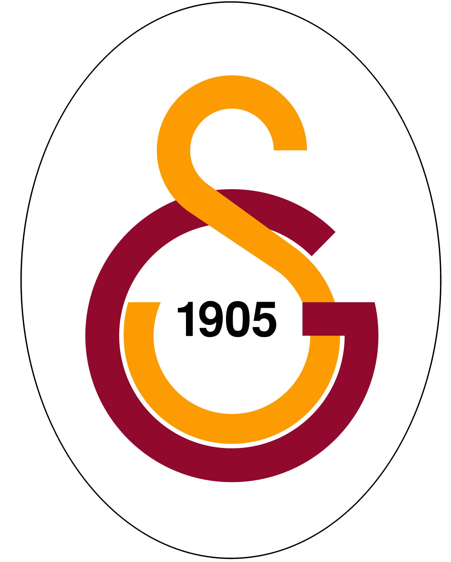 Galatasaray S.K. logo